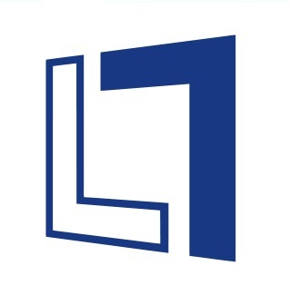 Former logo of LRT televizija